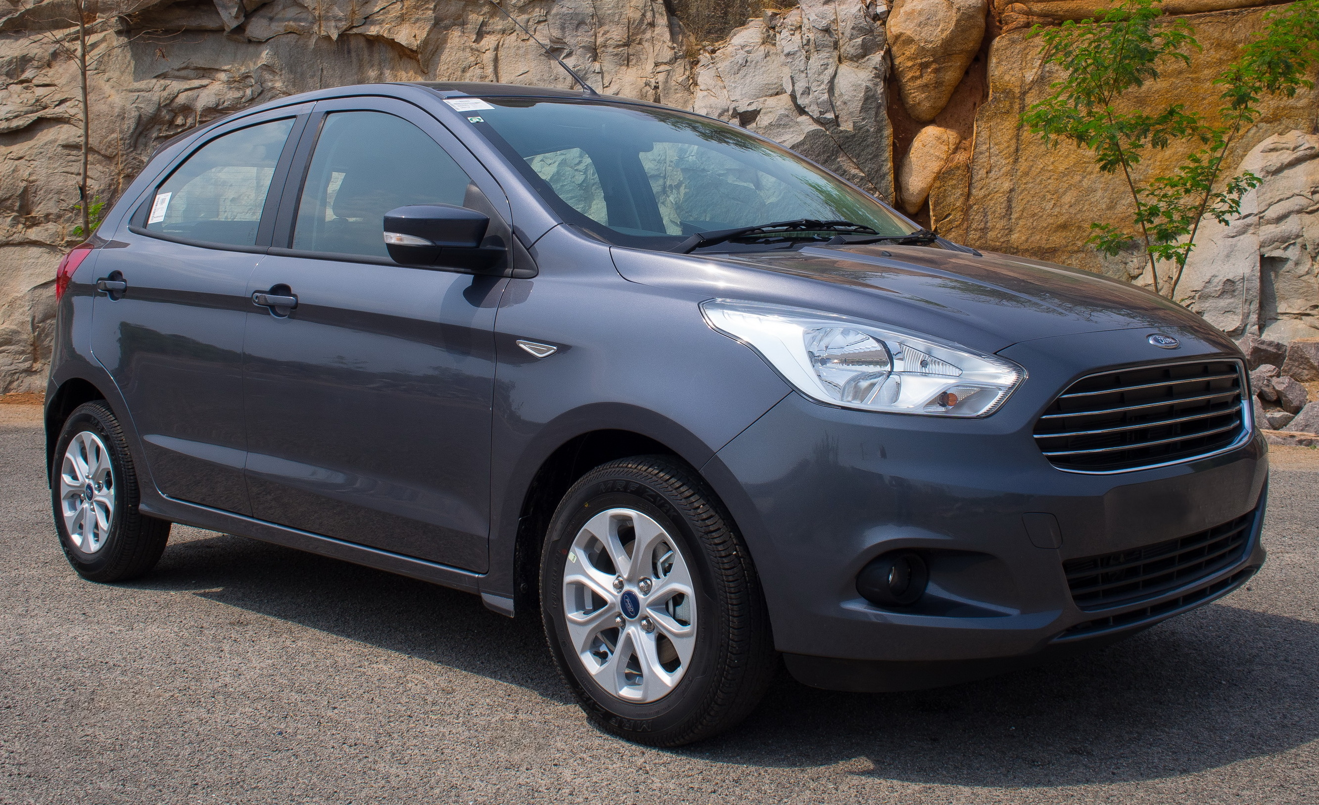 Ford Figo Second Generation (2016), Front Right 3/4 Shot